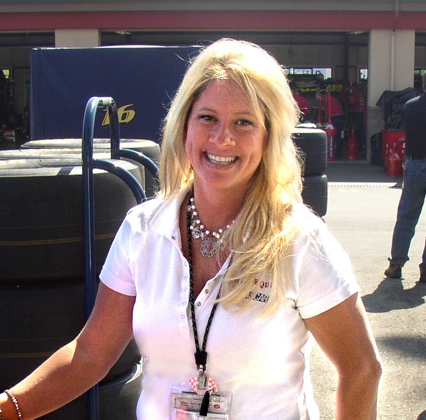 Photo of author Pamela Britton at Infineon Raceway Park in 2006